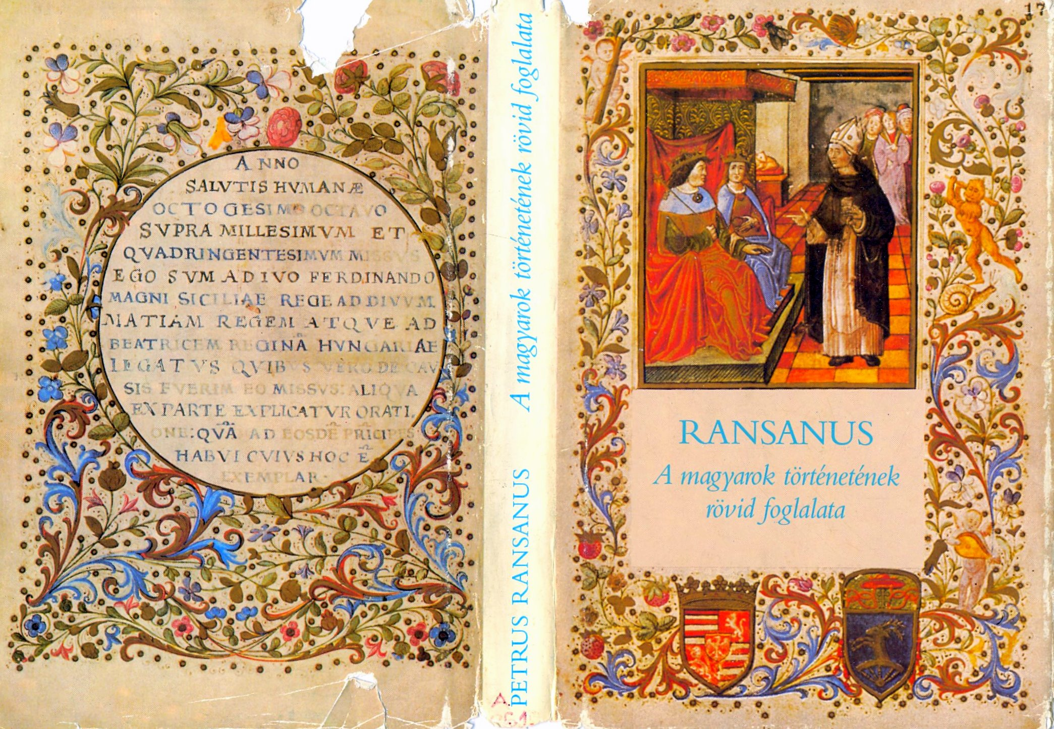 Book of Erzsébet Galántai